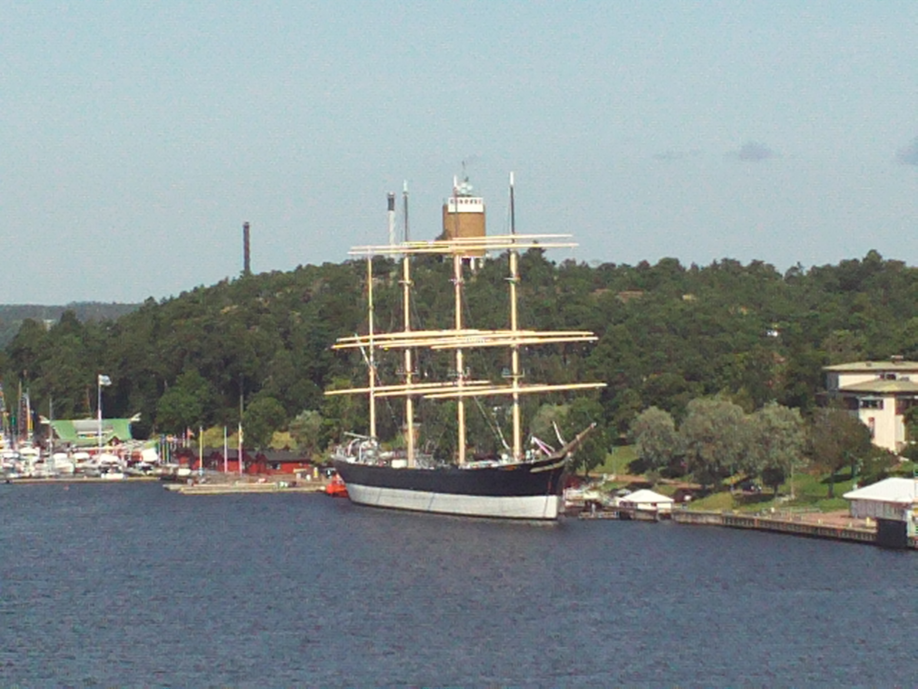 Pommern. The museum ship S/S Pommern as seen from a ferry., Mariehamn.